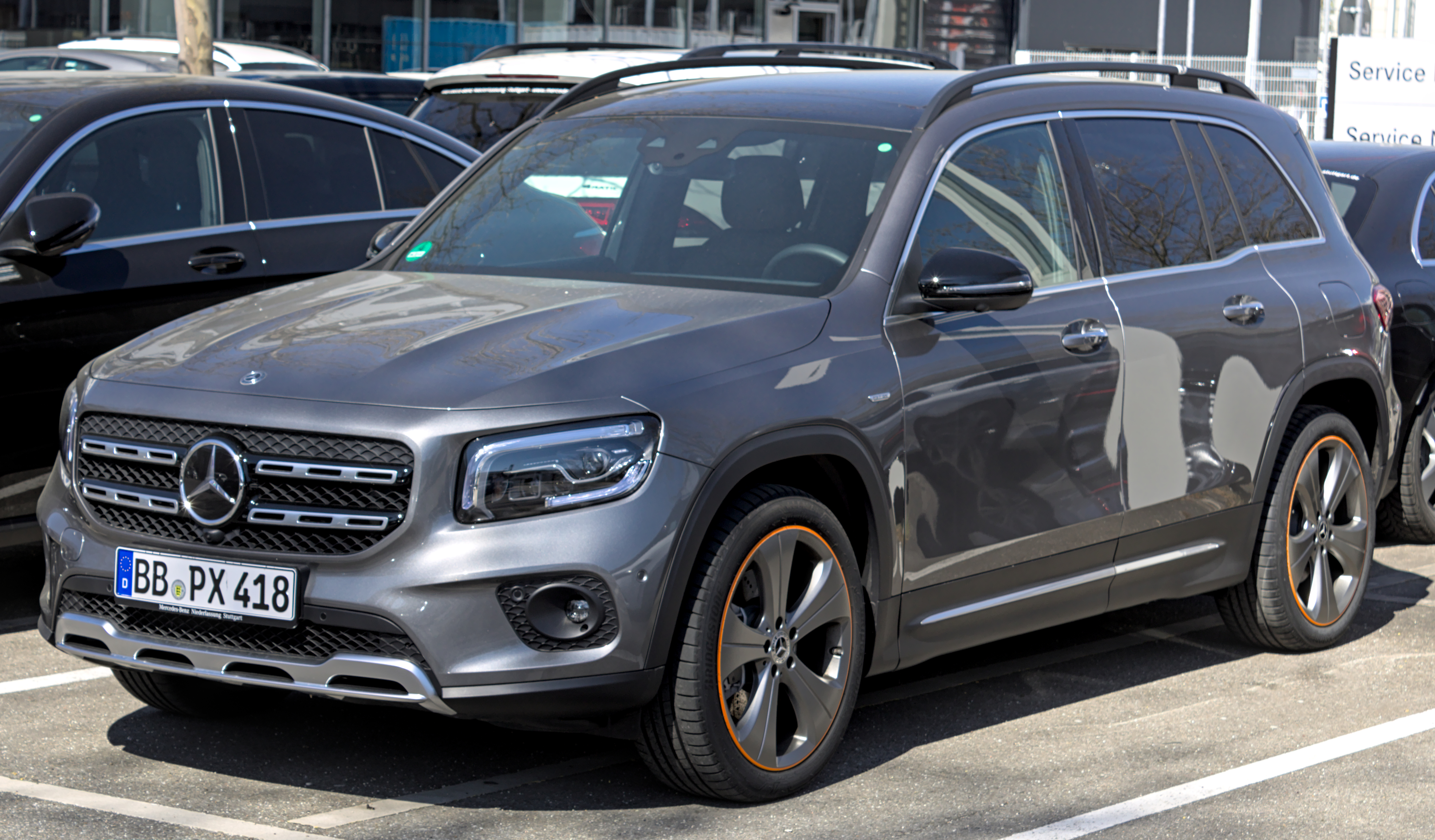 Mercedes-Benz_X247 in Böblingen